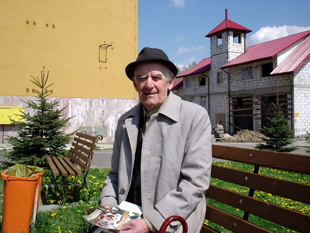 Piotr Przyboś, founder of a dancing team and a folk band 'Bukowianie z Bukowska'.